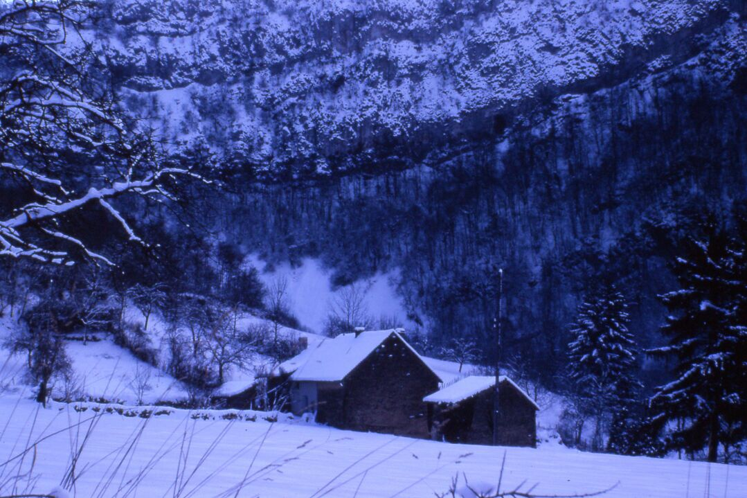 cliff in winter